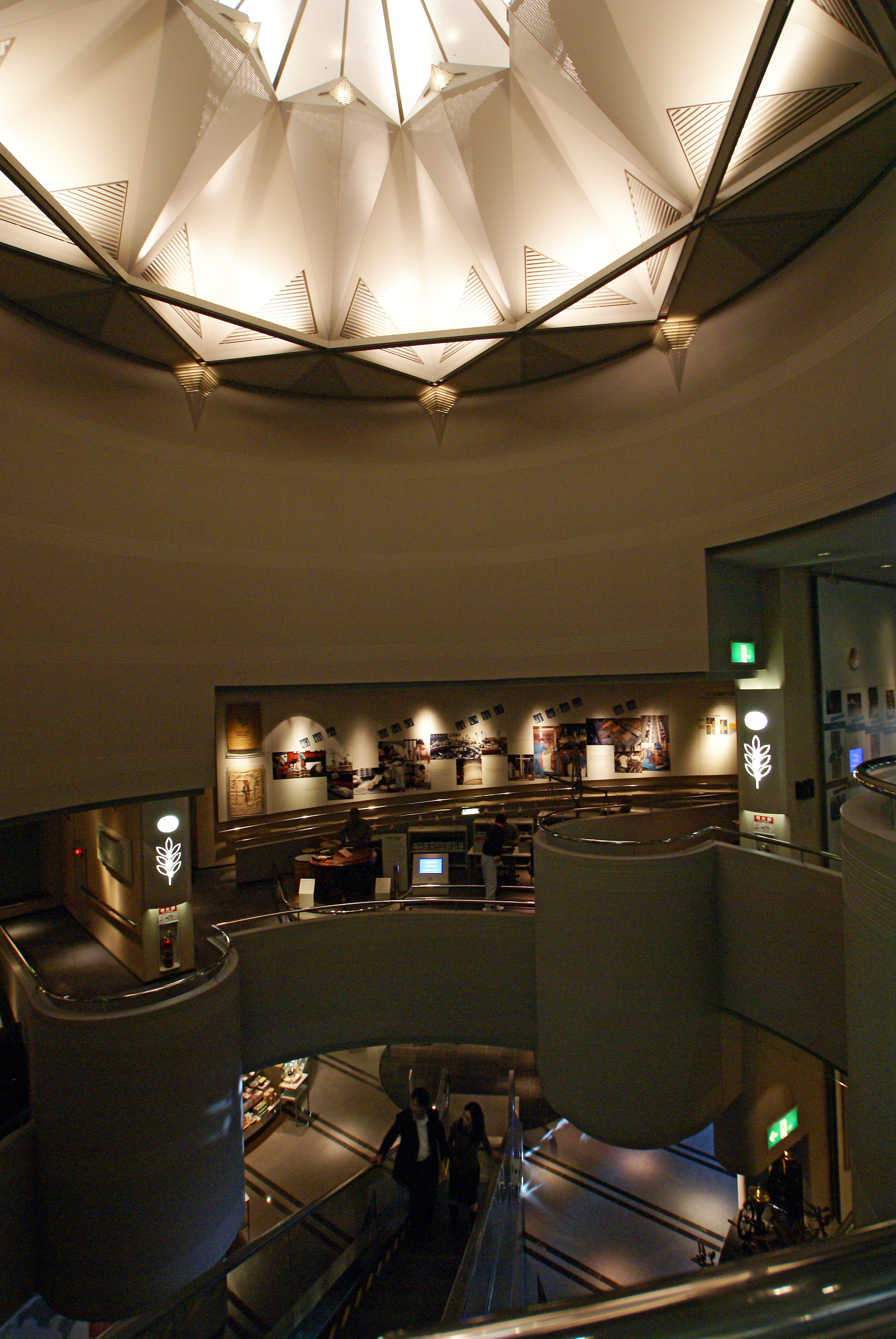 UCC Coffee Museum in Kobe, Hyogo prefecture, Japan